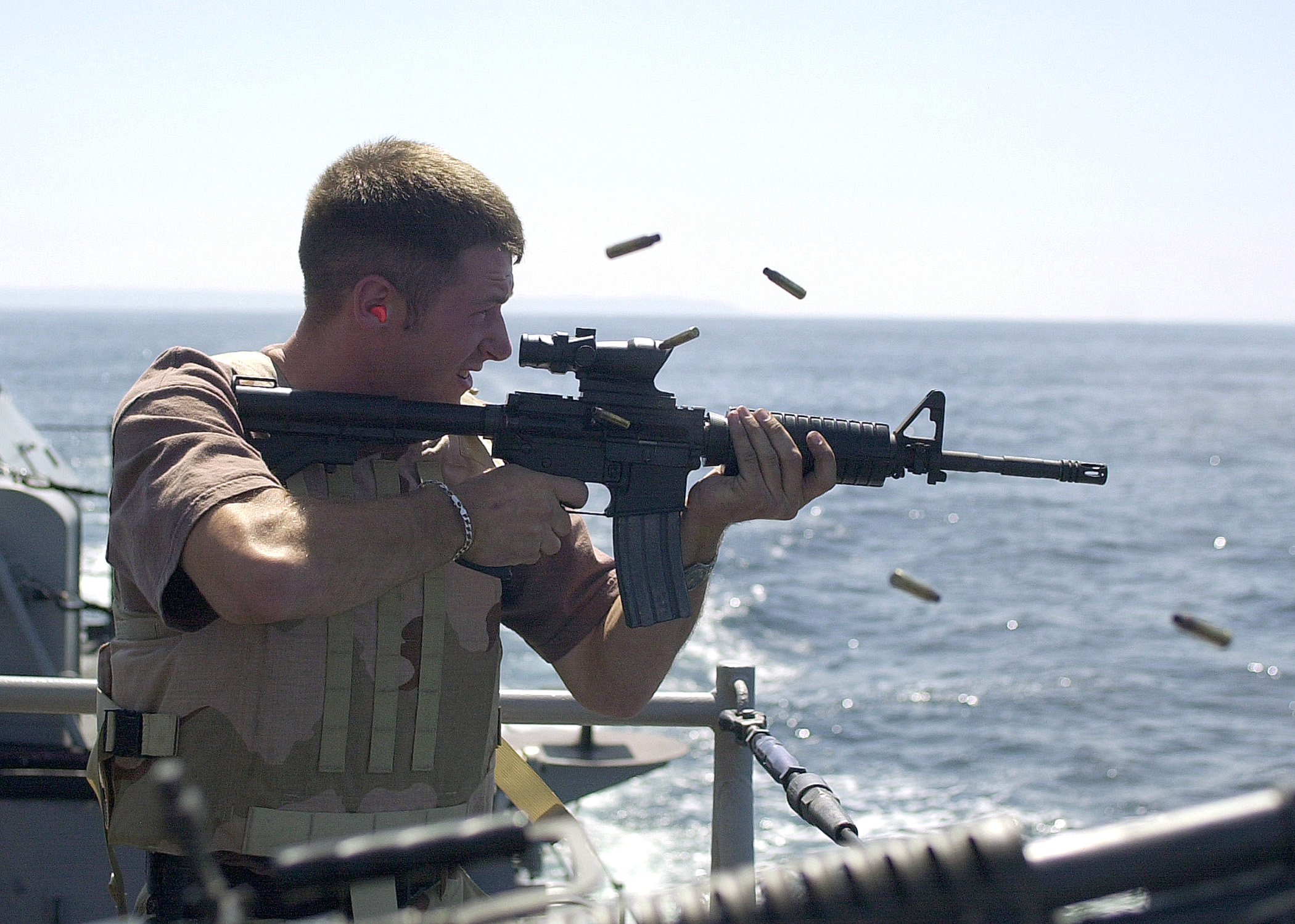 At sea aboard USS Monsoon (PC 4) July 28, 2004 – A Sailor aboard the coastal patrol ship USS Monsoon (PC 4) fires an M4 assault rifle as part of a demonstration for a group of Naval Reserve Officer Training Corps (NROTC) Midshipmen. The NROTC midshipmen were recently in San Diego participating in the annual summer Career Orientation and Training for Midshipmen (CORTRAMID) program. Midshipmen were exposed to surface, submarine and aviation warfare specialties. They also were introduced and given instruction on Marine Corps amphibious warfare. The program helps each Midshipman decide what field he or she may want to apply for upon graduation from college. U.S. Navy photo by Photographer’s Mate 1st Class Daniel N. Woods (RELEASED)